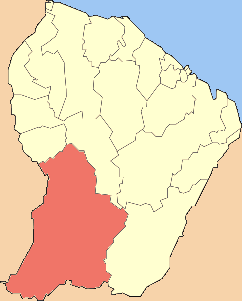 Made map myself.